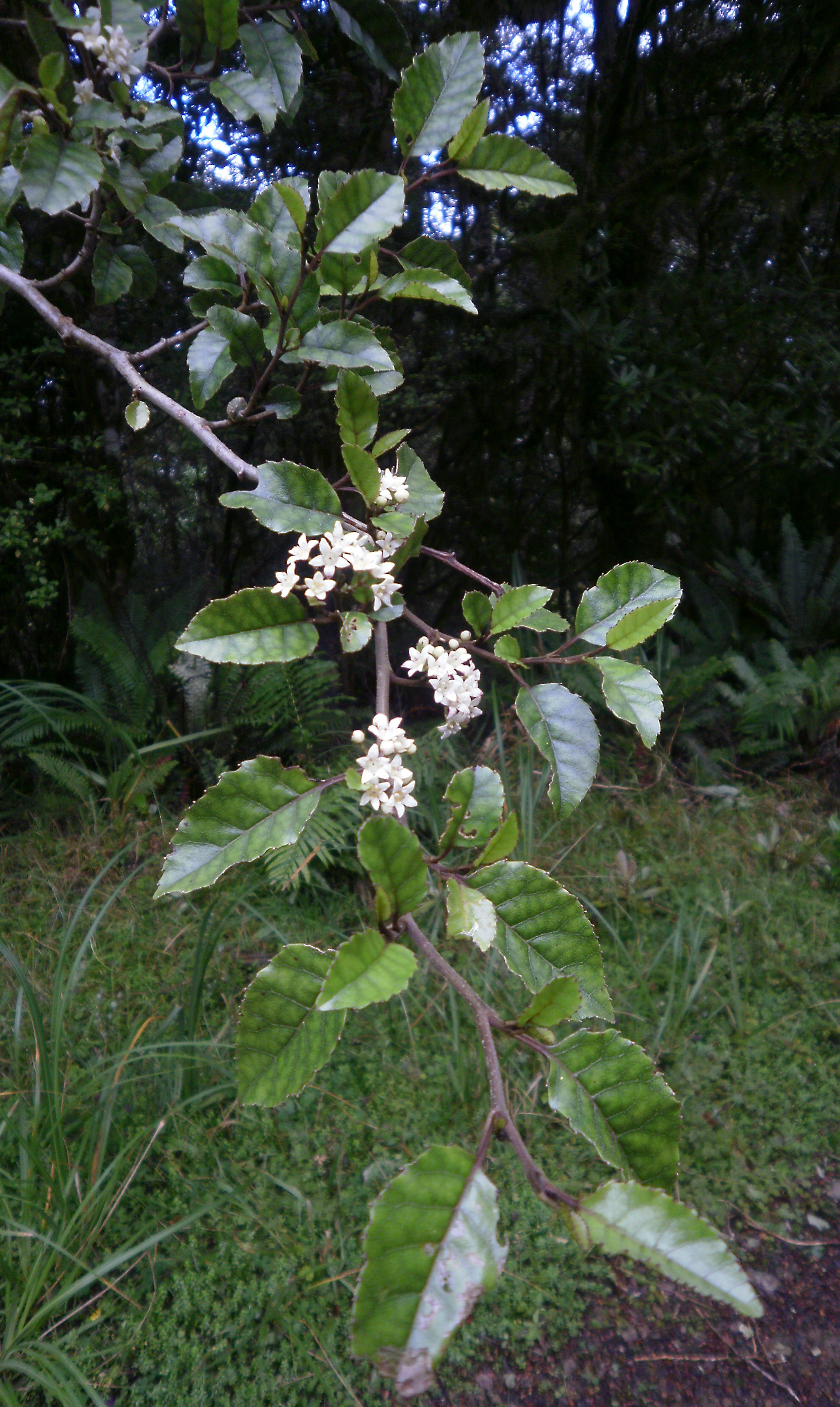 Close-up of leaves and flowers of Carpodeus serratus or Putaputaweta, native tree of New Zealand. Photographed in Upper Hutt.